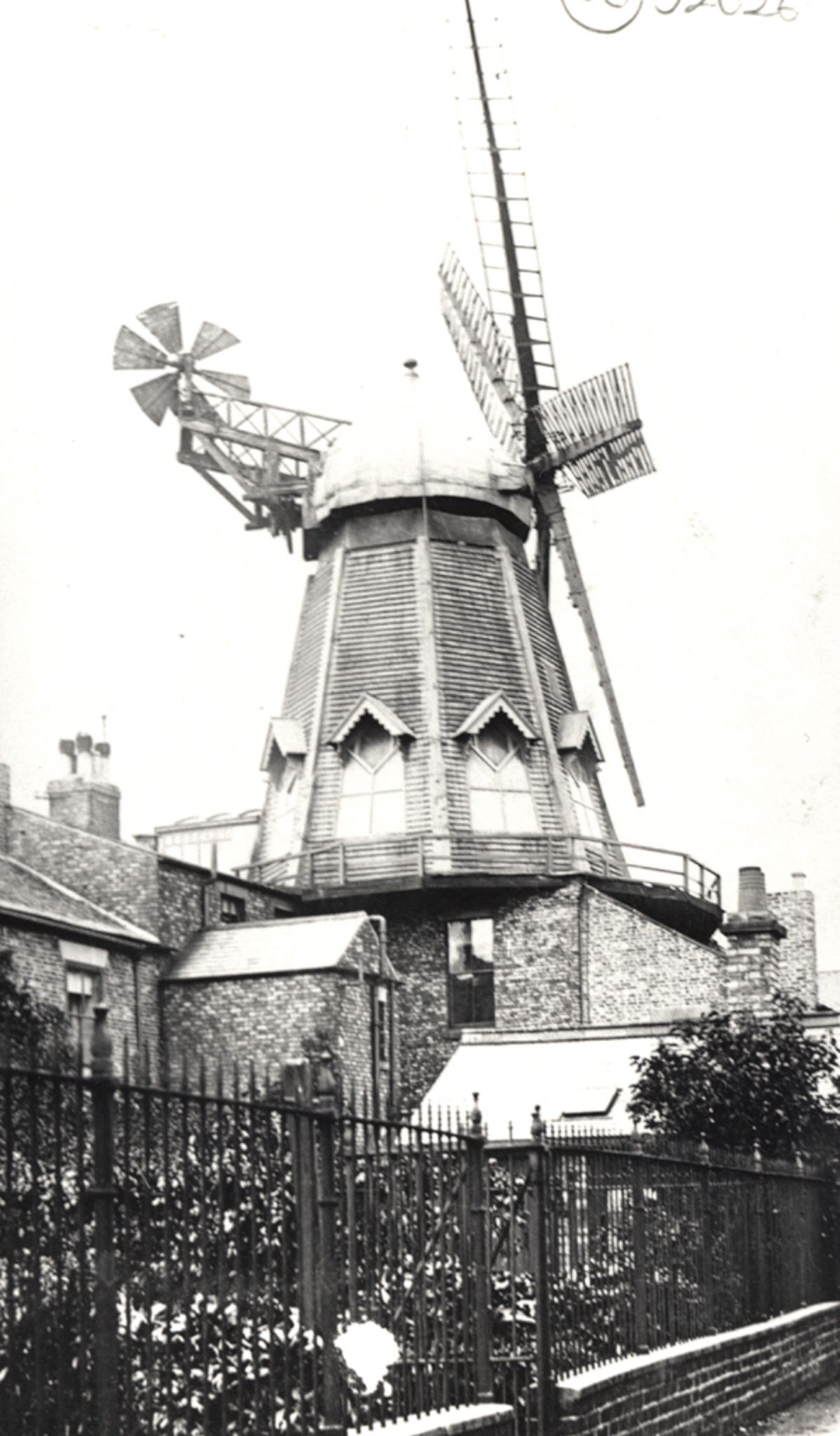 Windmill_Chimney_Mills_Spital_Tongues